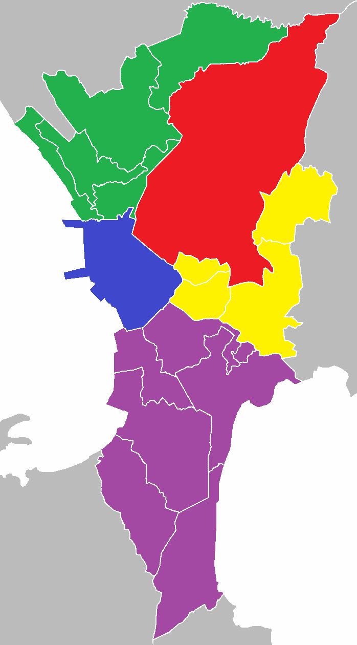 District offices under the National Capital Region Police Office (NCRPO).